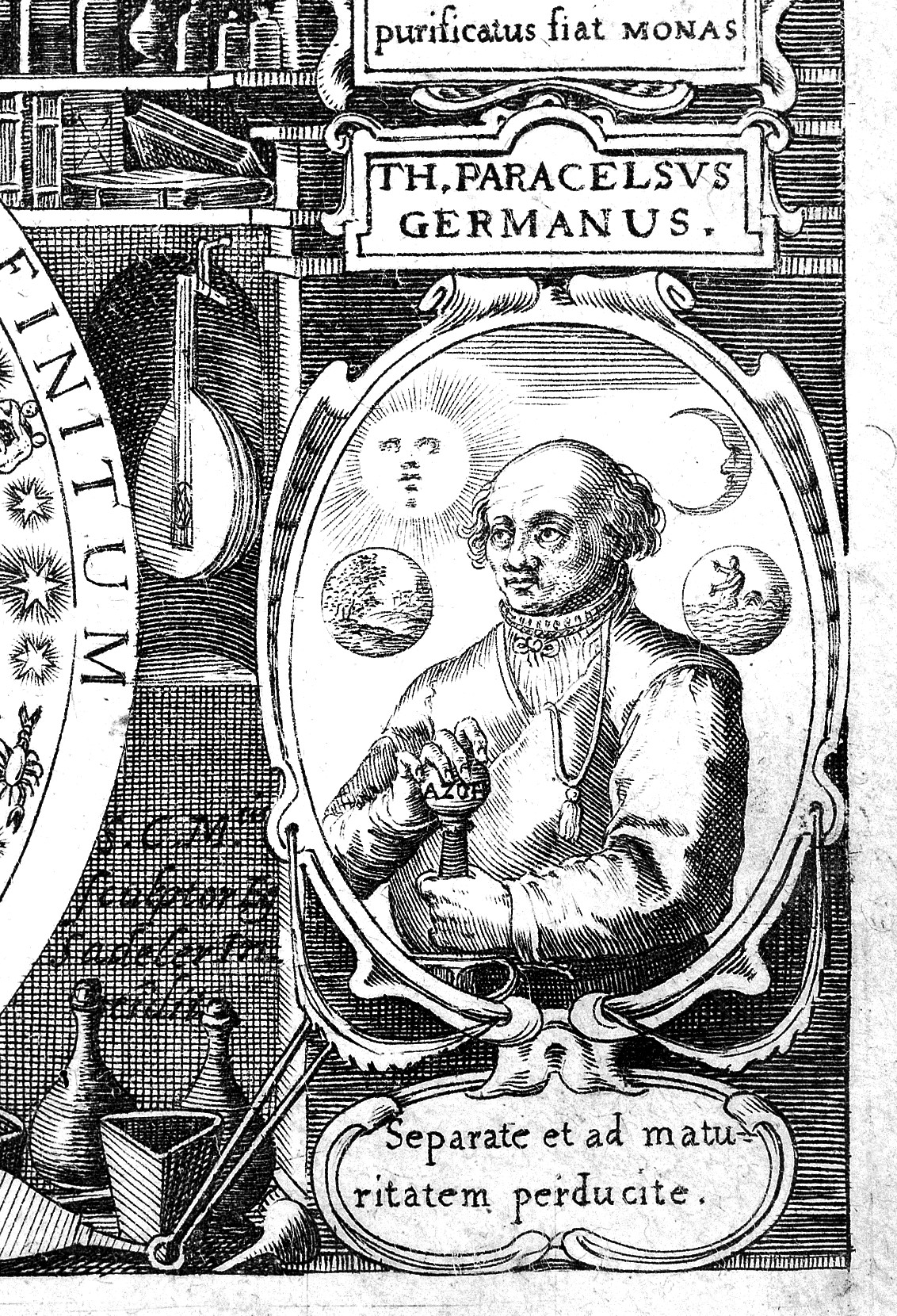 Portrait of Paracelsus, detail of the title page of Oswald Croll's Basilica chymica[1] Rare Books Keywords: Oswald Croll; Aureolus Theophrastus Bombastus von Hoenheim Paracelsus